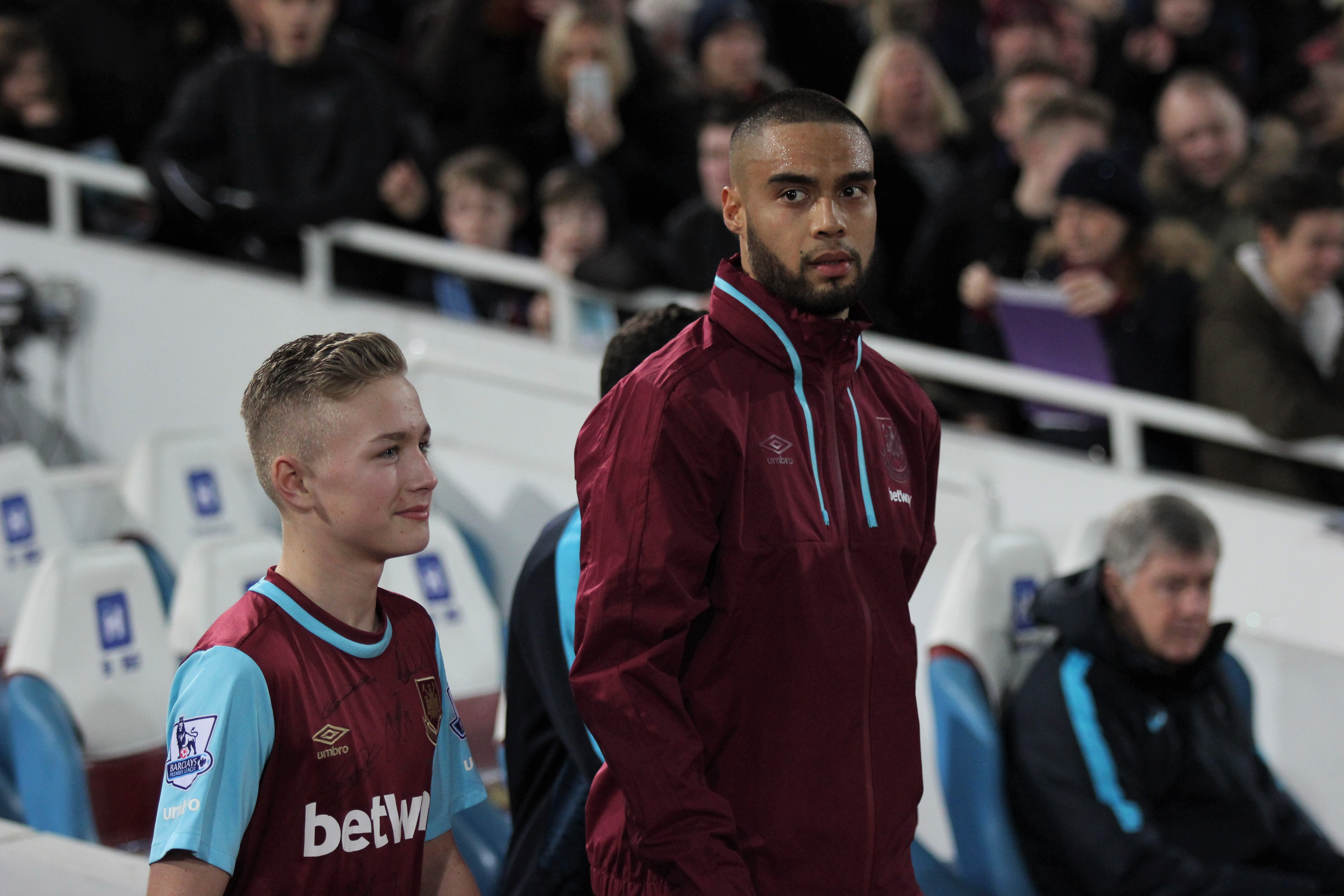 Winston Reid of West Ham walks out before the game against Manchester City.